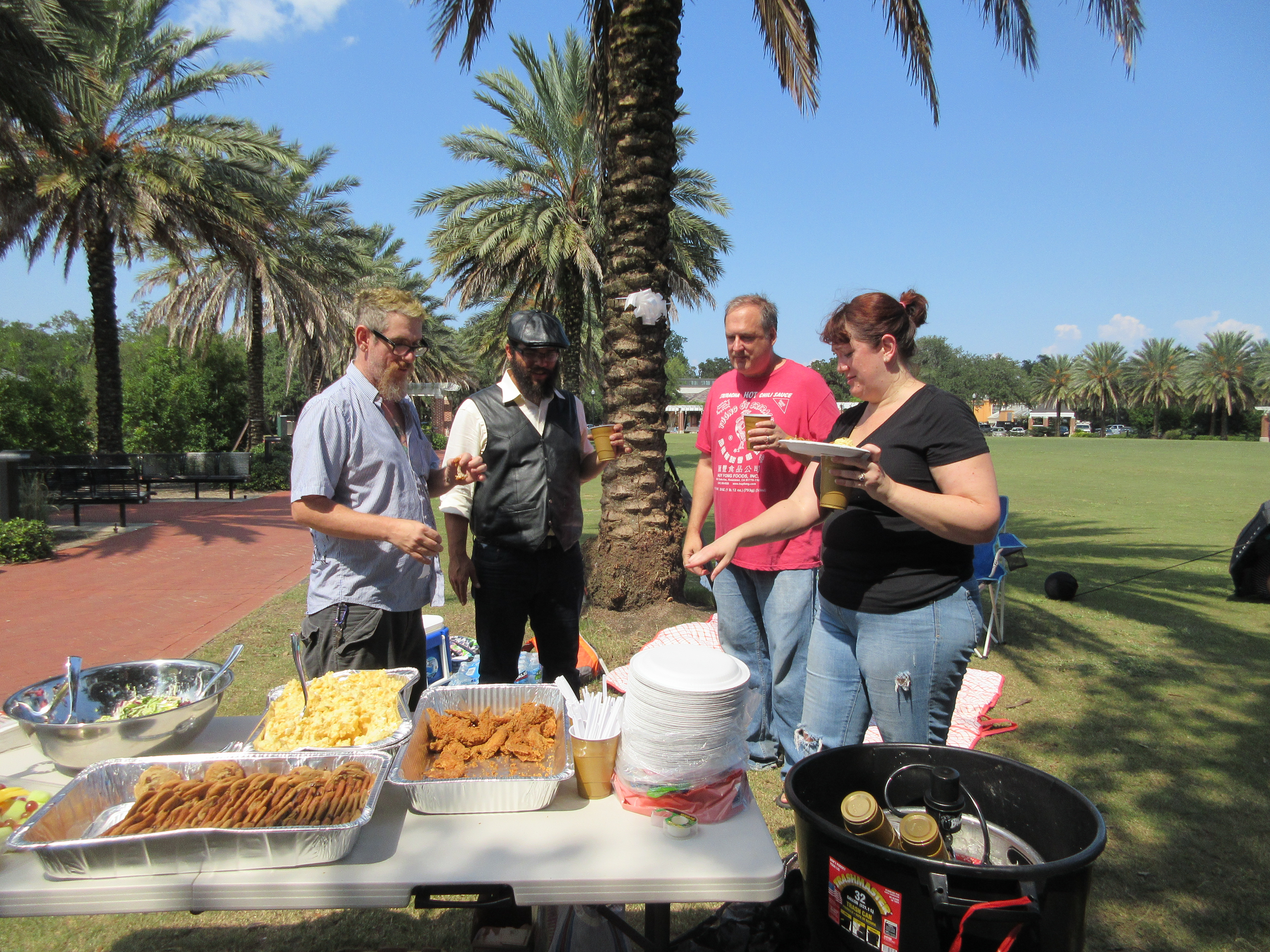 City Park, New Orleans. At the Great Lawn. Photo by Infrogmation of New Orleans, Saturday 24 September, 2016. Free reuse with attribution in accordance with cc-by-sa-4.0 license. Reuse without photographer attribution is a violation of copyright. Personality rights warningAlthough this work is freely licensed or in the public domain, the person(s) shown may have rights that legally restrict certain re-uses unless those depicted consent to such uses. In these cases, a model release or other evidence of consent could protect you from infringement claims.